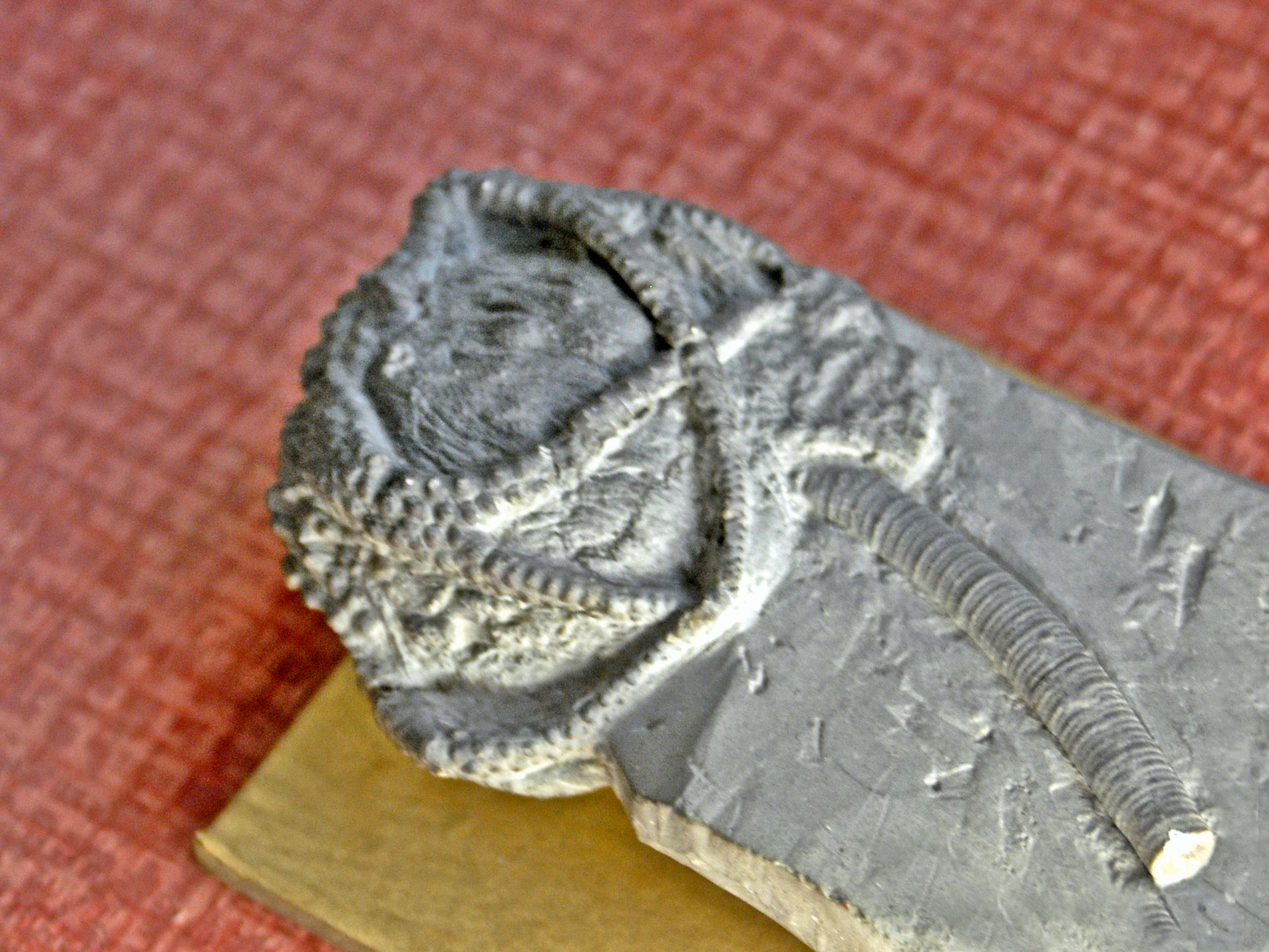 Fossil specimen of Gilbertsocrinus tuberosus from the United States, on display at Gallery of Paleontology and Comparative Anatomy, Paris.